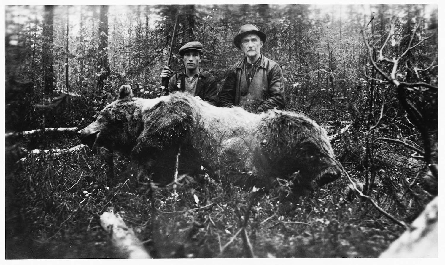 Depicted place: Dalarna (Sverige (SE))